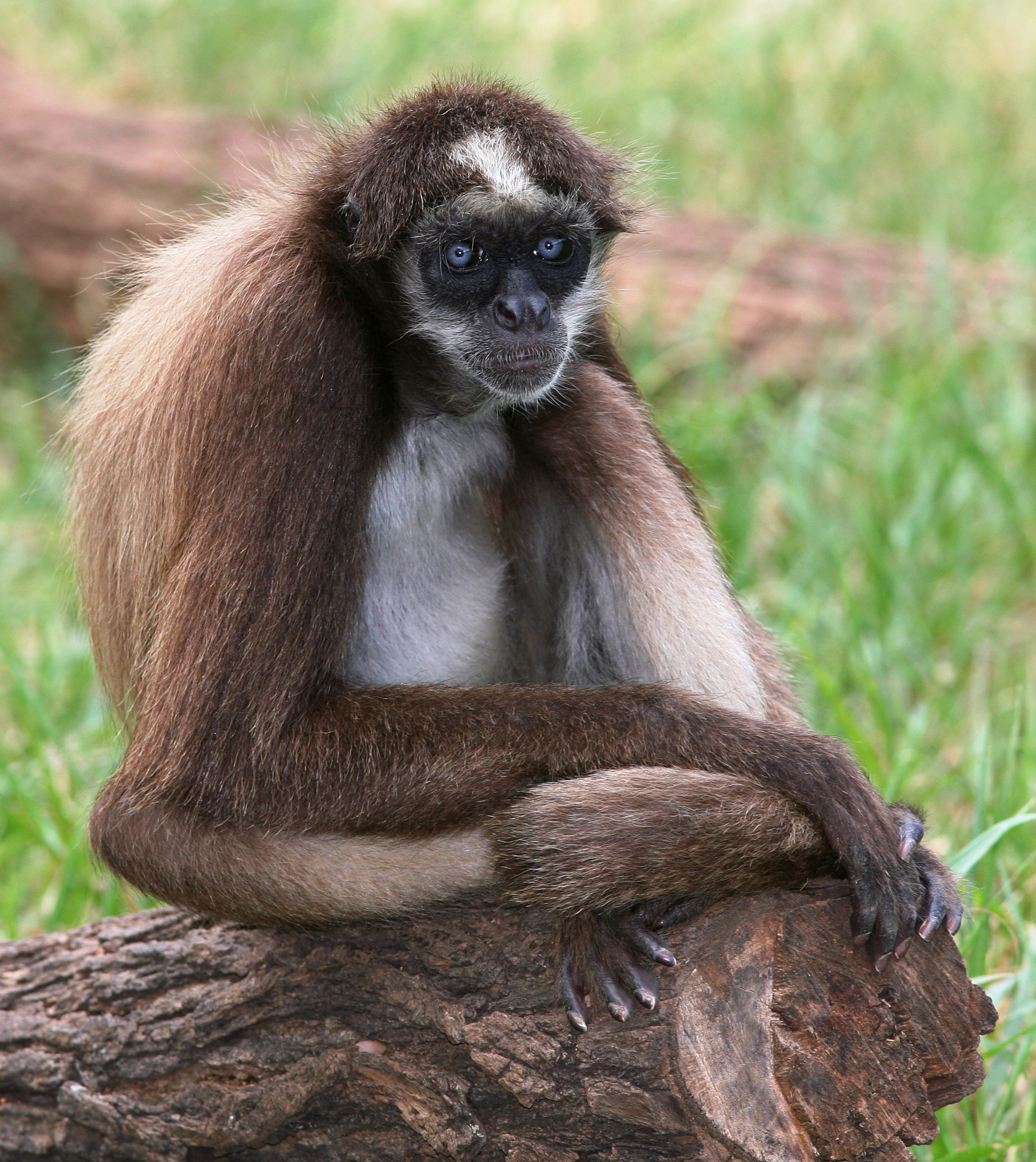 A critically endangered Brown Spider Monkey, Ateles hybridus, with uncommon blue eyes. Shot in captivity in Barquisimeto, Venezuela